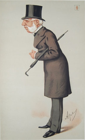 Caricature of Thomas Bazley MP. Caption read "Manchester".